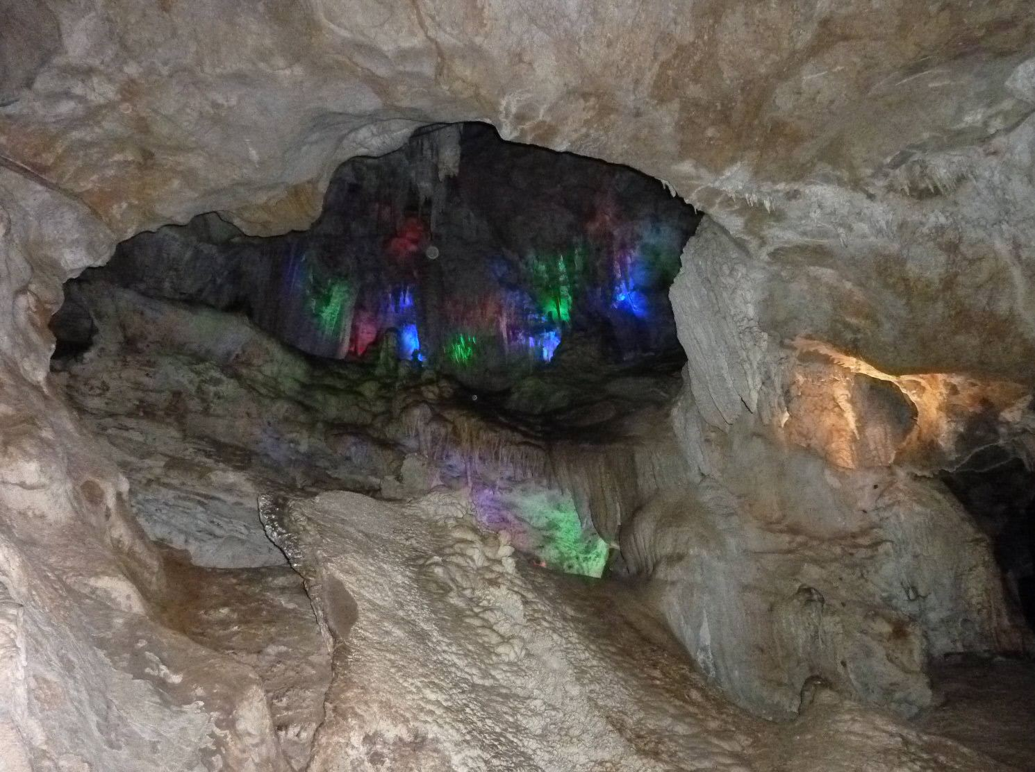 cave with colored lights